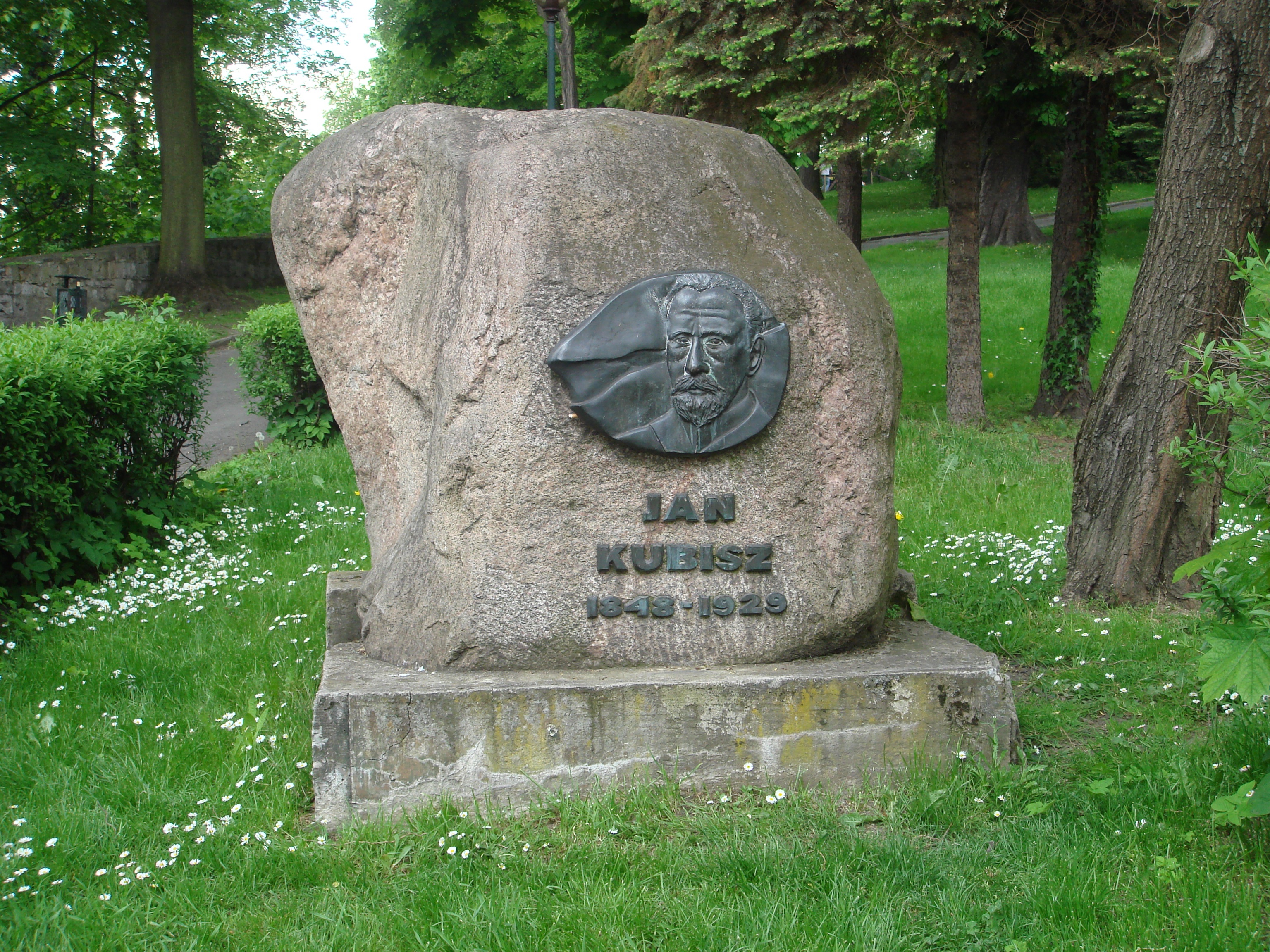 Monument in Cieszyn commemorating educator and writer Jan Kubisz (Silesian Voivodeship, Poland).